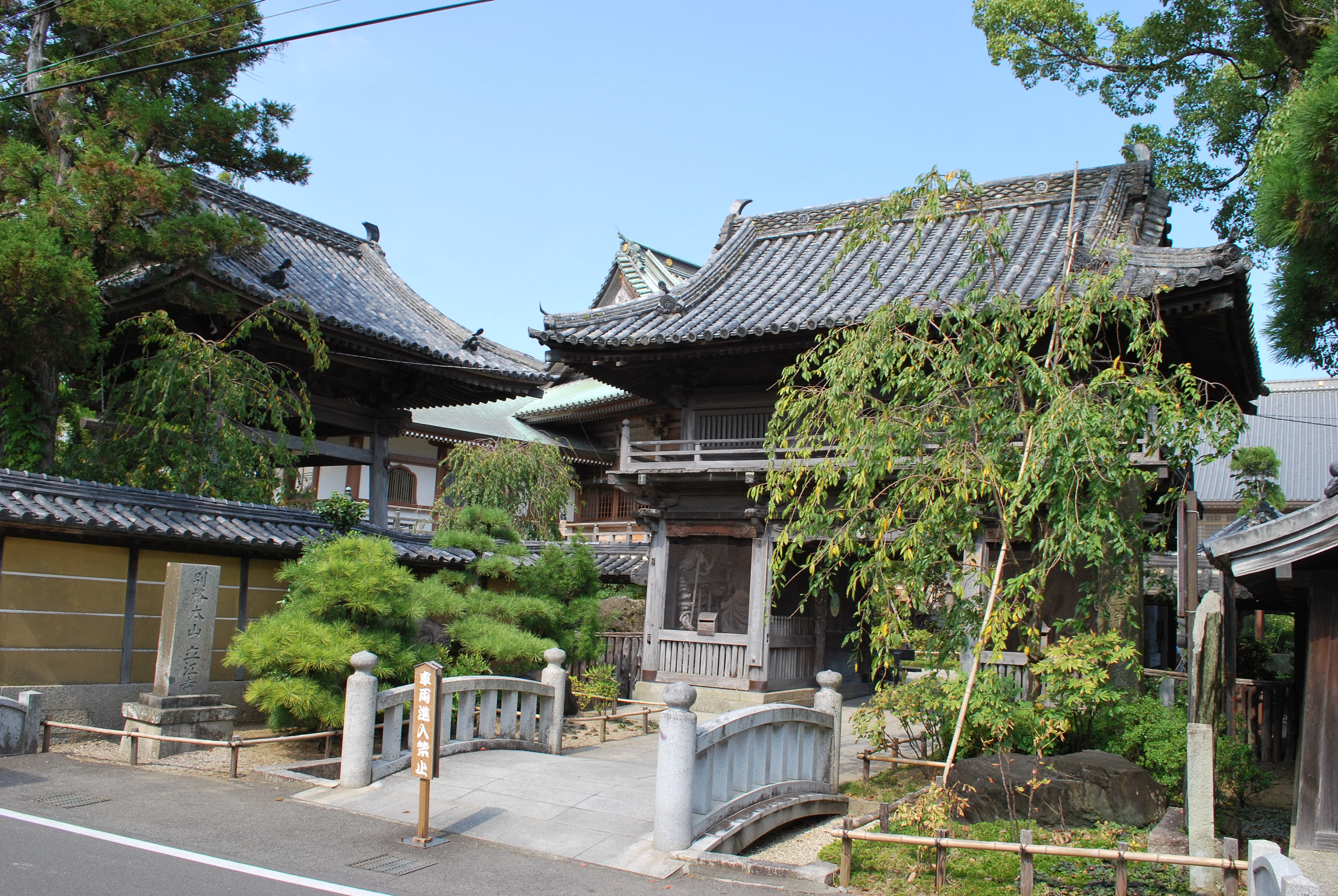 Temple gate, Tatsue-ji